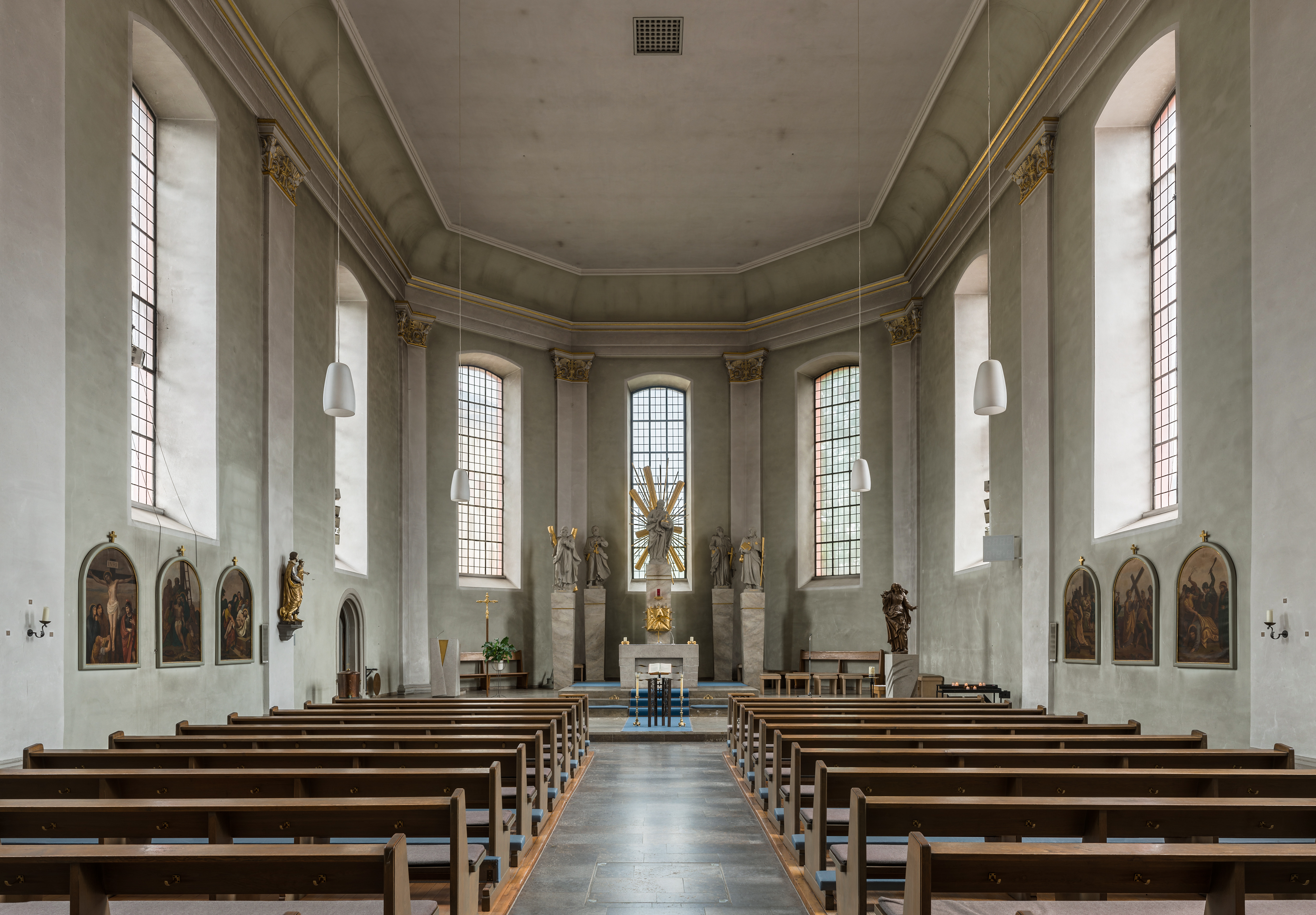 An interior view of St. Bartholomäus, Bad Brückenau